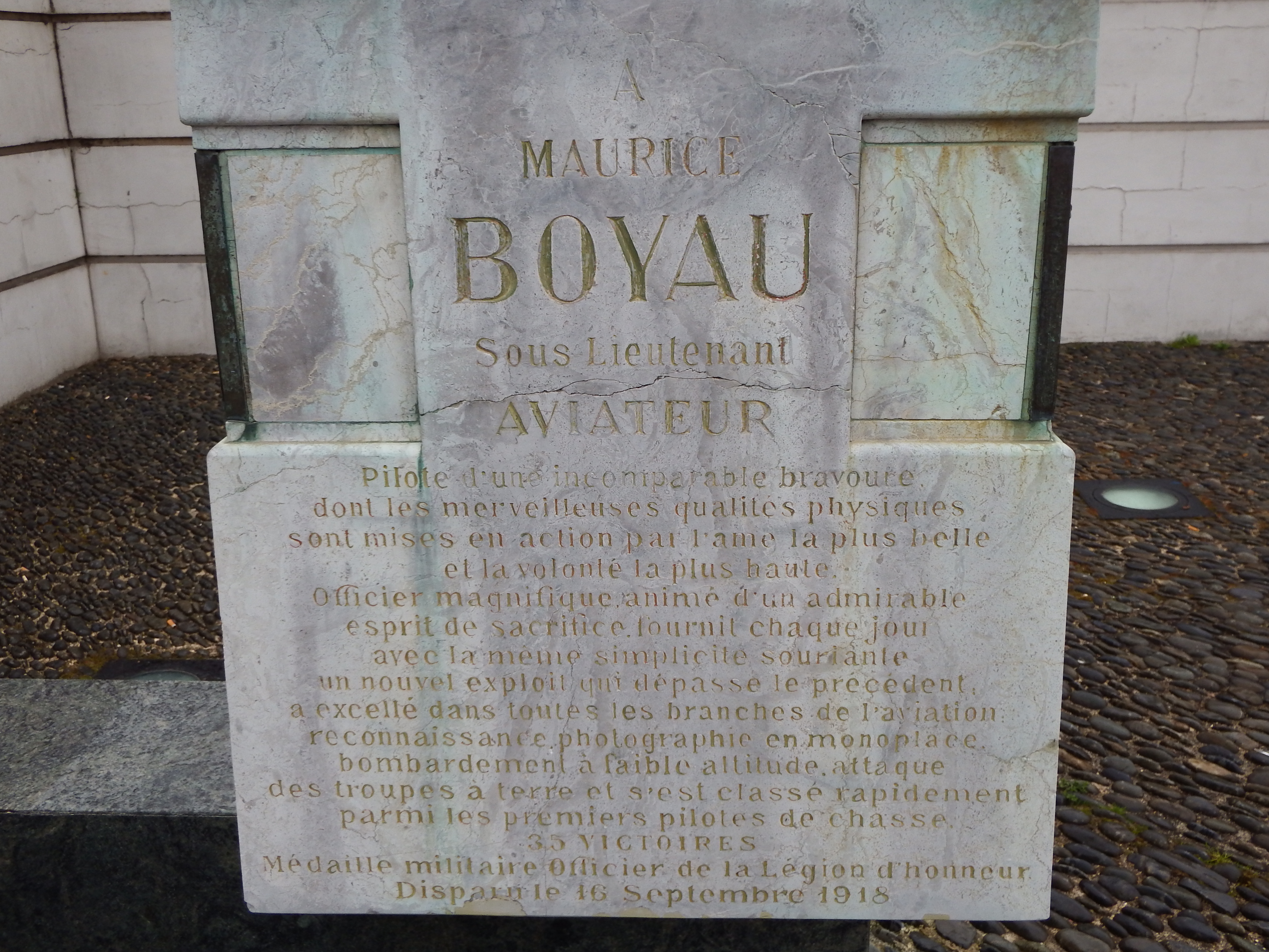 Commemorative stele of Maurice Boyau statue, outside the stadium Maurice Boyau of Dax.